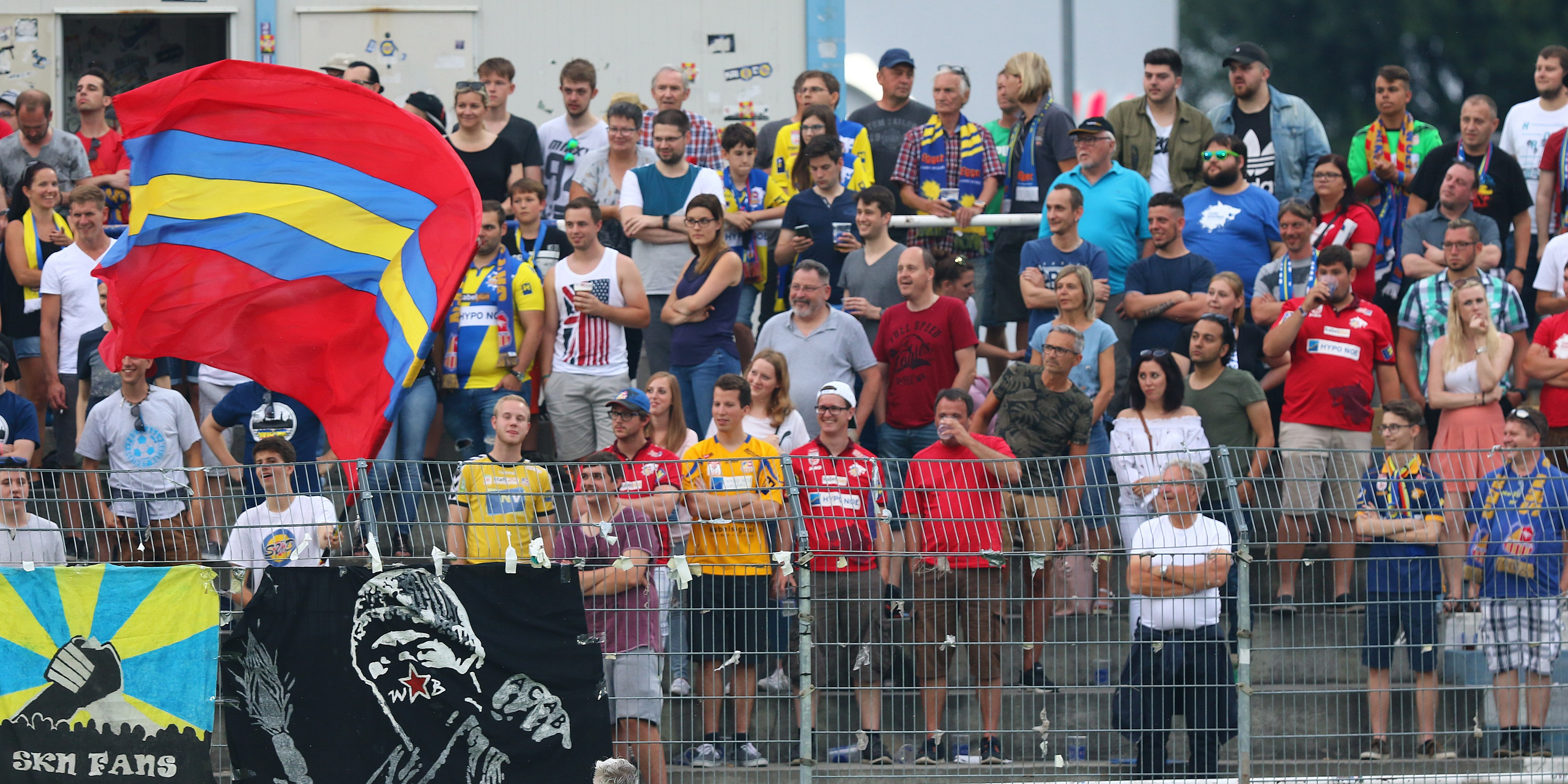 Football qualification match for the Austrian Bundesliga - SC Wiener Neustadt (white shirts) vs. SK St. Pölten (red shirts) 0-2. – The photo shows supporters of SKN St. Pölten.